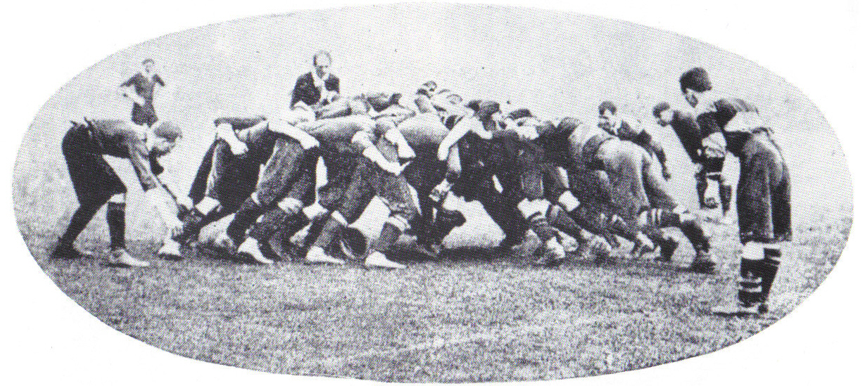 Rugby union scrum, contested between Newport RFC (in hoops) and London Welsh (solids)